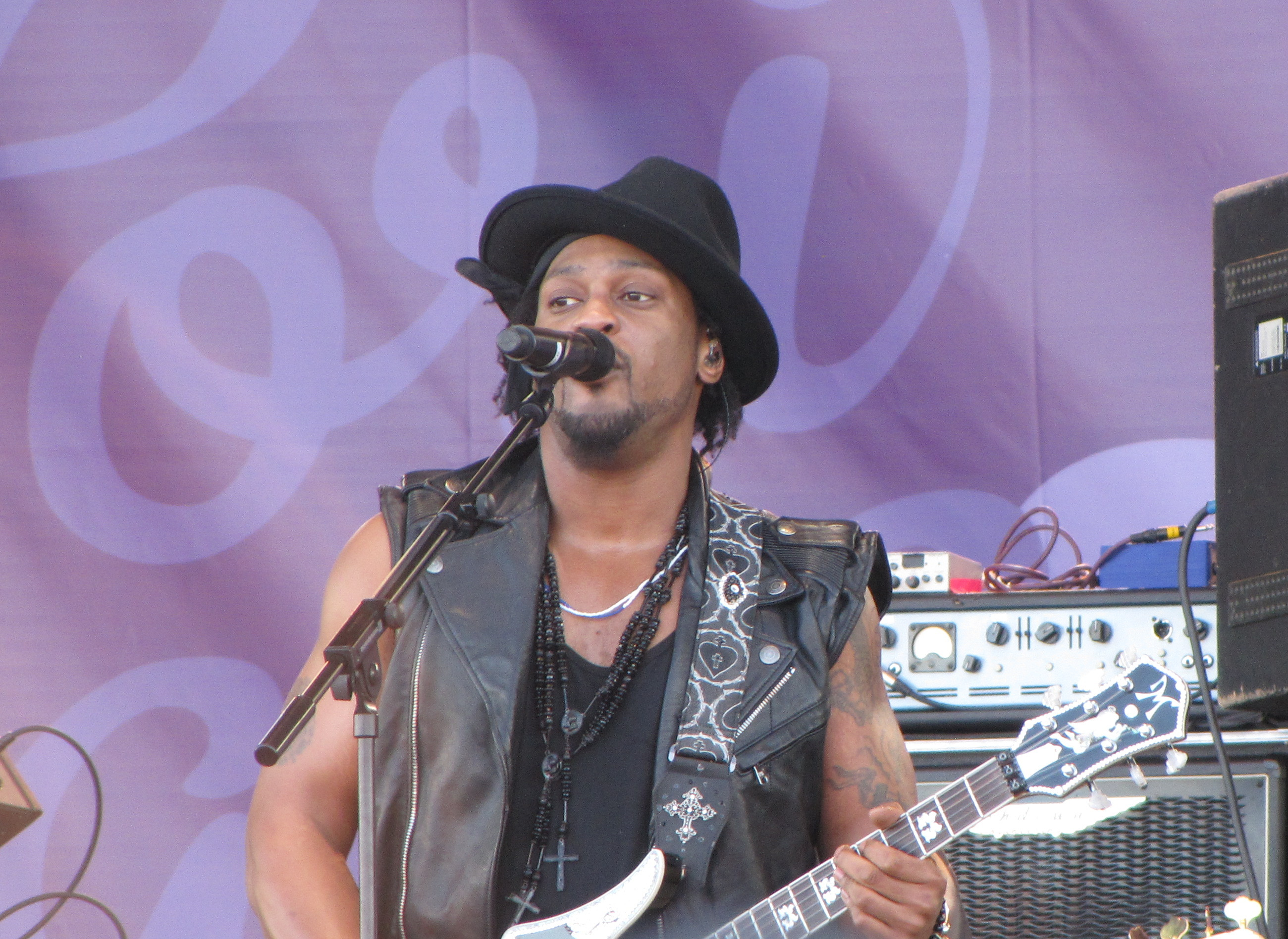 Singer D'Angelo performing at Pori Jazz festival in Pori, Finland.